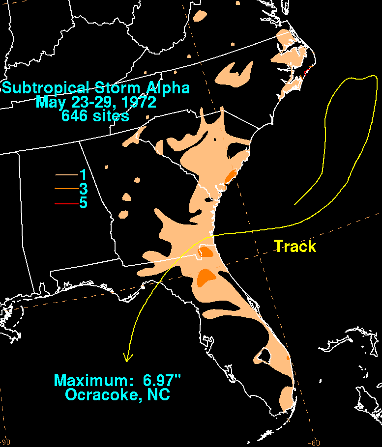 Storm total rainfall map of Subtropical Storm Alpha during May 1972.